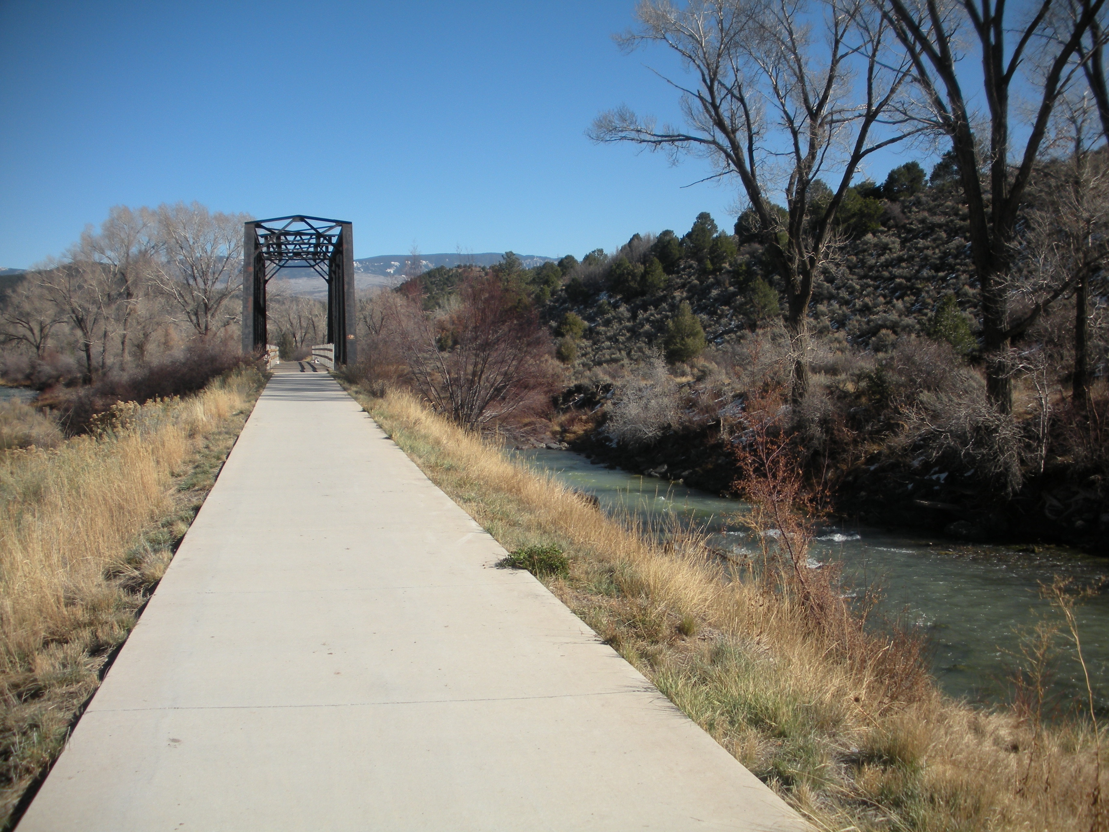 View of bridge that leads to Scenic Walkway along the Uncompahgre river.